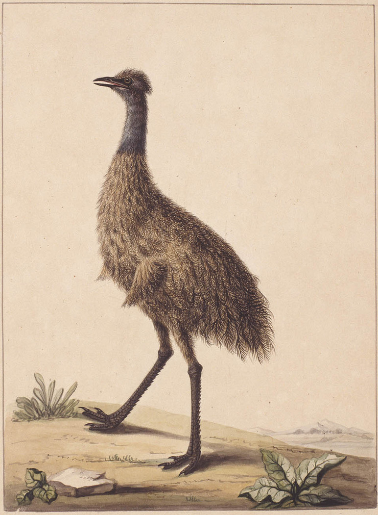 f. 07 : New Holland Cassowary